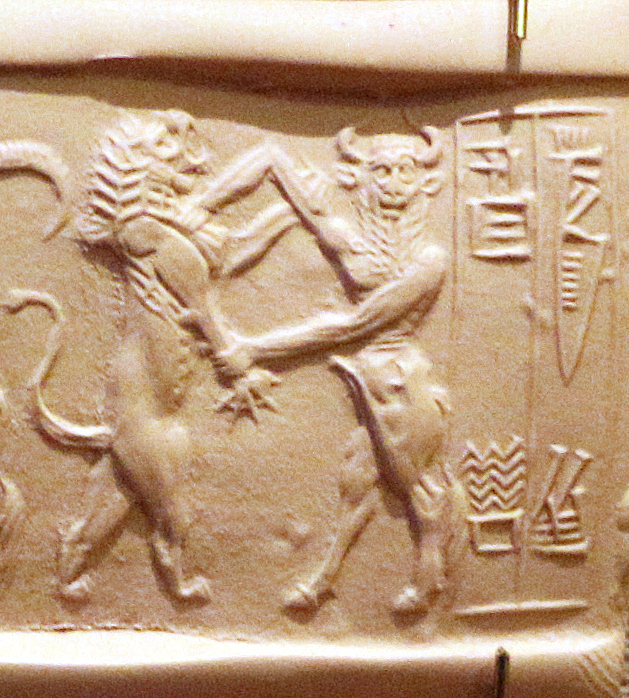 Enkidu on an Akkadian cylinder seal